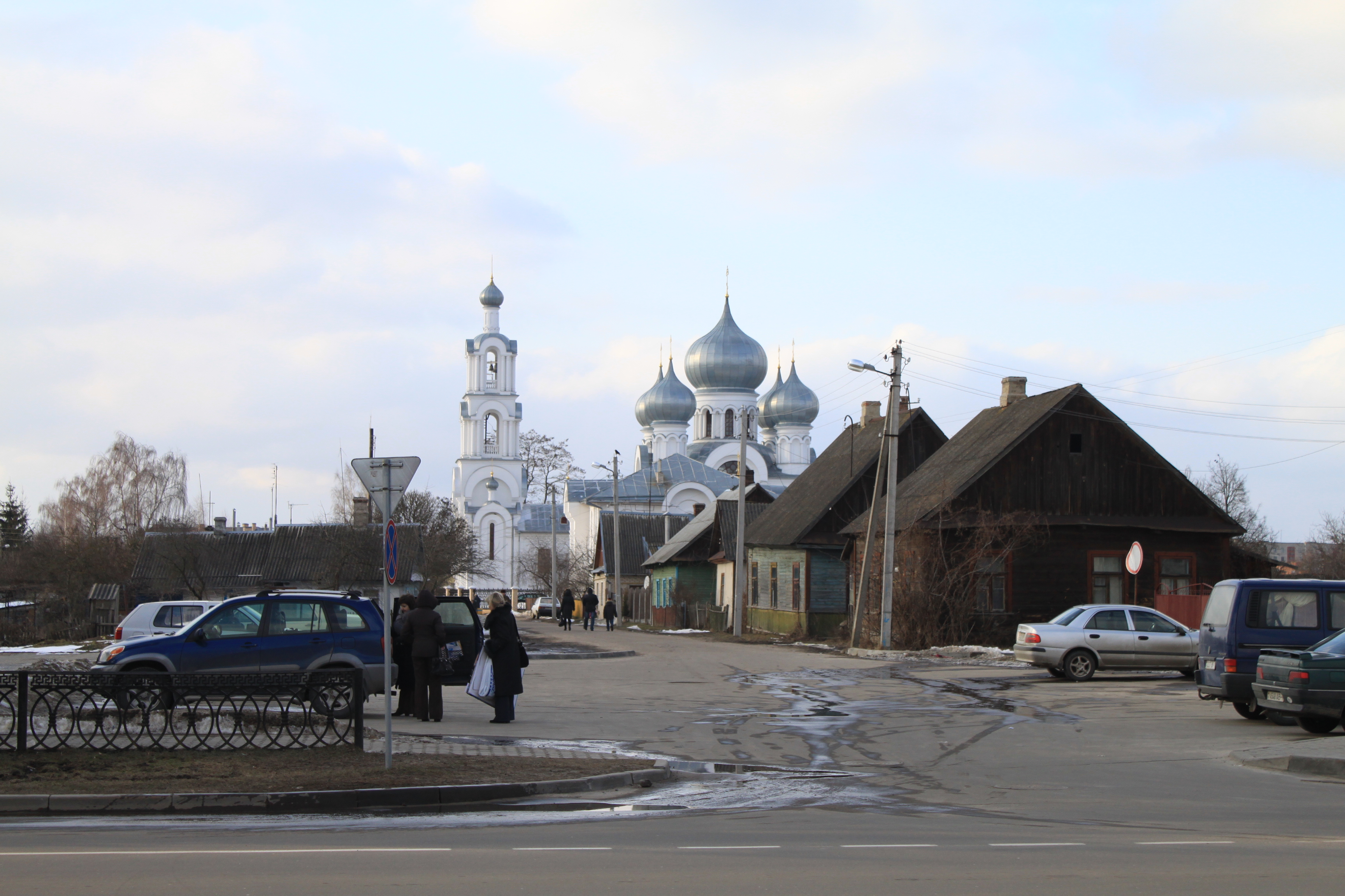 a view of Biaroza, Belarus Беларуская (тарашкевіца): від на старую частку Бярозы-Картускай